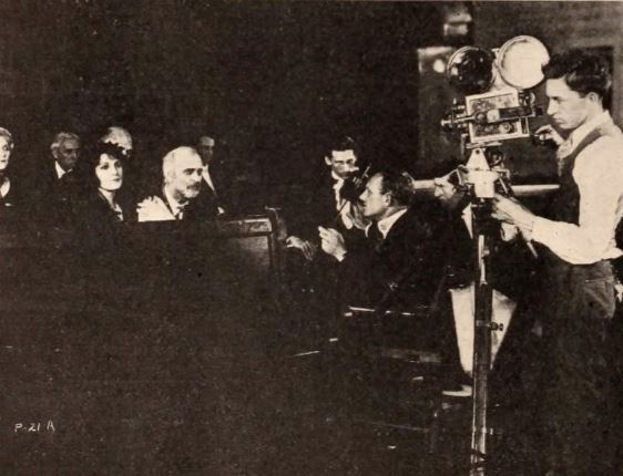 Still from the American drama film Down Home (1920) with Leatrice Joy, William Robert Daly, and director Irvin Willat, on page 82 of the October 30, 1920 Exhibitors Herald. A violinist is playing to aid the actors. The camera operator is not identified.